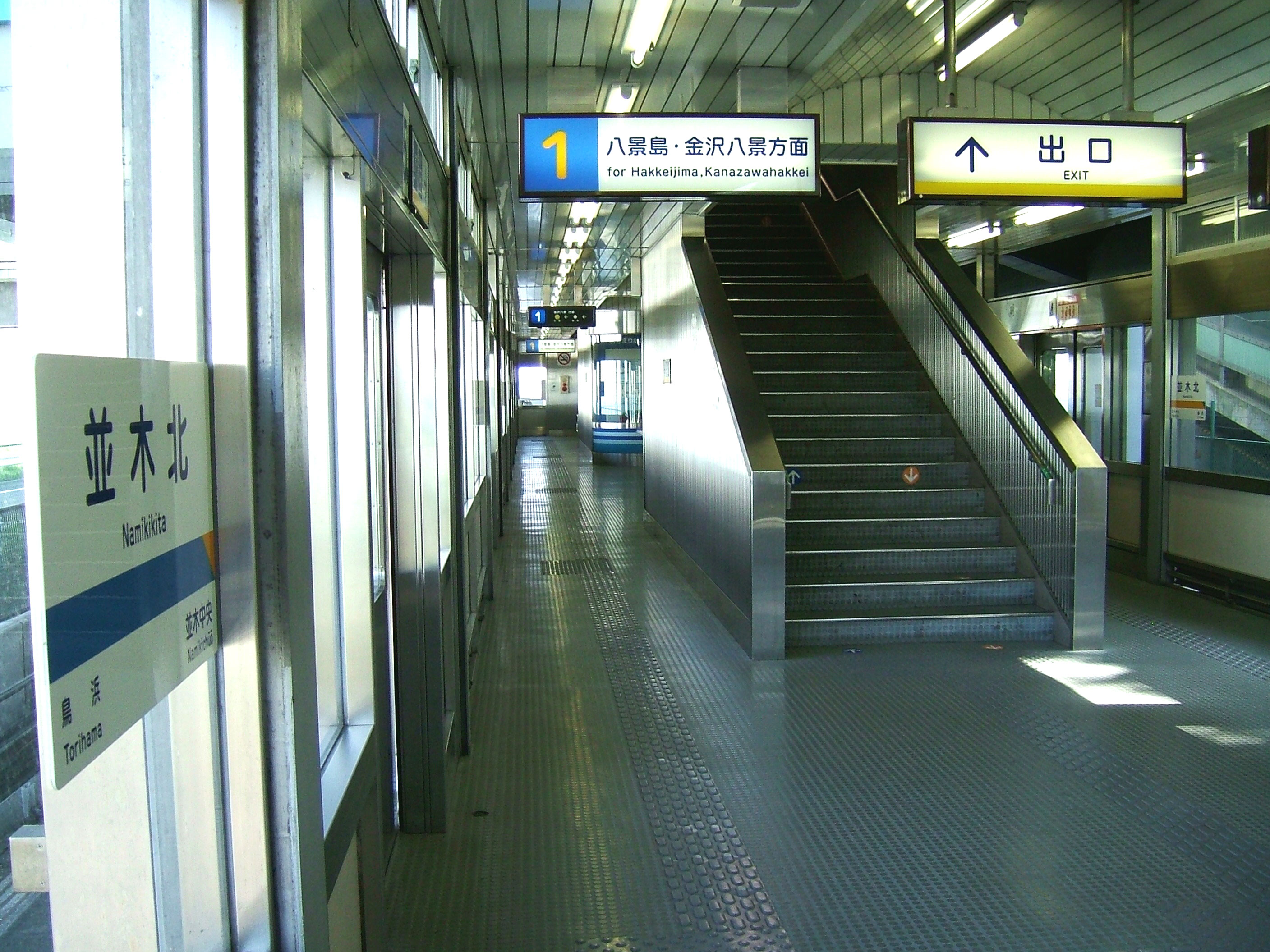 Namiki-Kita Station platform (Kanazawa Seaside Line)